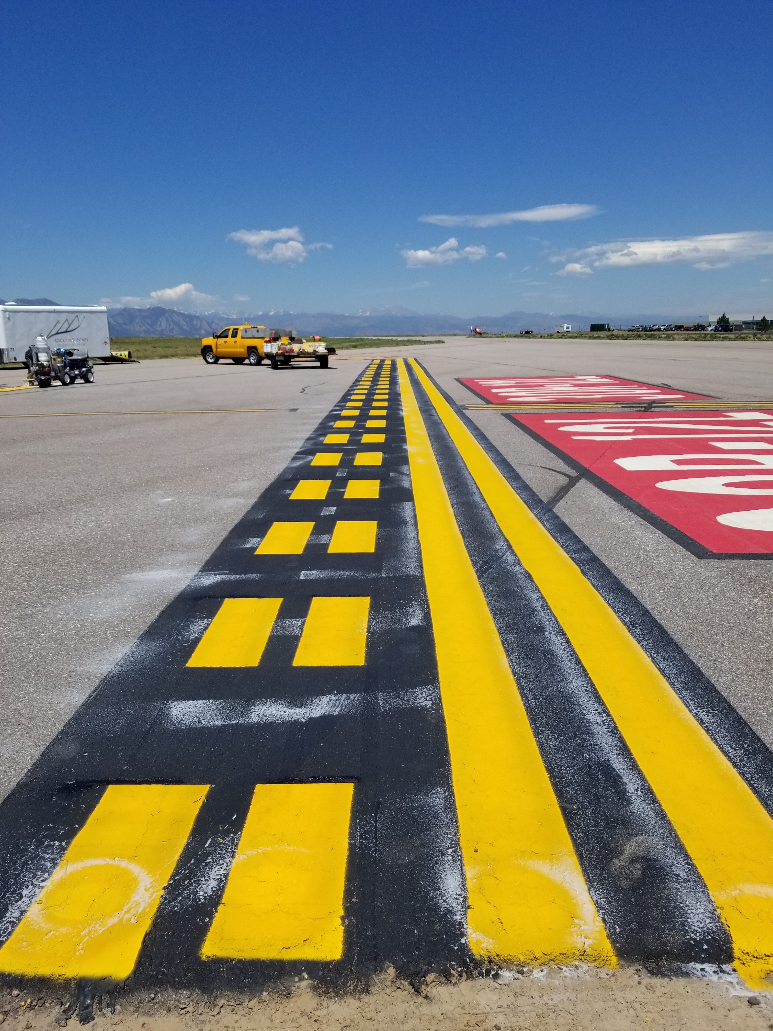 A newly painted Runway Holding Position Marking